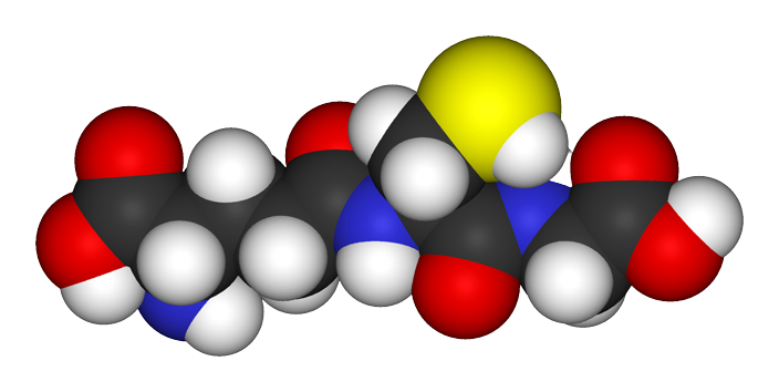 Space-filling model of glutathione